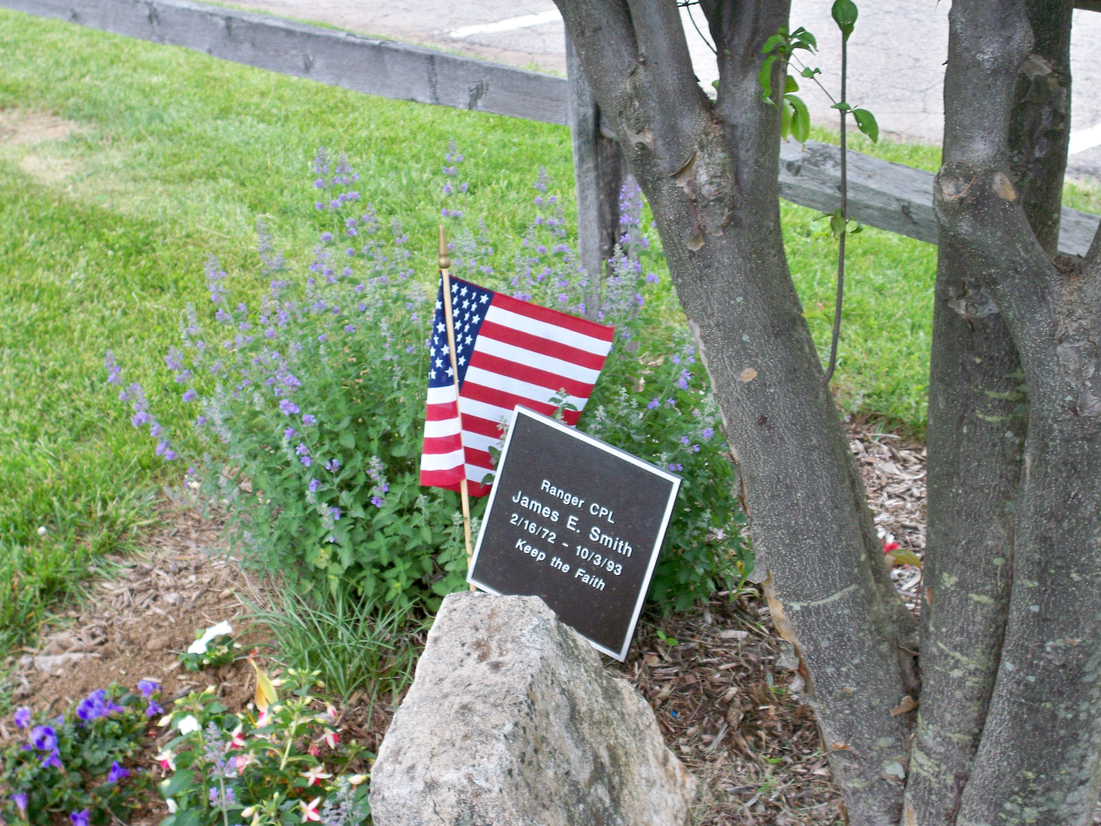 Cpl. Jamie Smith died in Mogadishu - history was told in Black Hawk Down